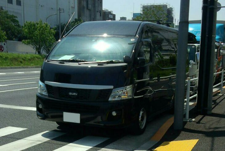 ISUZU, COMO